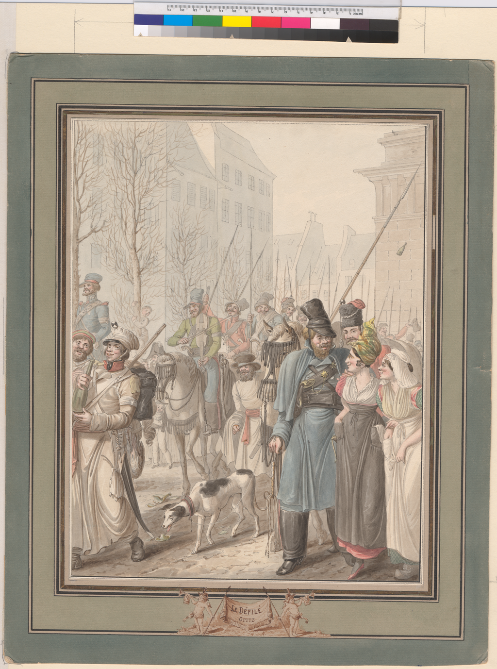 This is the first of a pair of unsigned watercolors by the German artist Georg Emanuel Opitz (1775-1841). It shows a procession of cossack soldiers marching through Paris during the occupation of the city in 1814. Opitz, who focused on portraiture and caricature, traveled to Paris in 1813 and witnessed the arrival of Russian and Prussian forces in the city following the Battle of Paris. Until this battle, no foreign army had entered Paris in 400 years. The French defeat led to the abdication of the Emperor Napoleon. The watercolor is from the Anne S.K. Brown Military Collection at the Brown University Library, the foremost American collection devoted to the history and iconography of soldiers and soldiering, and one of the world’s largest collections devoted to the study of military and naval uniforms. Armies; Napoleonic Wars, 1800-1815; Parades and processions; Soldiers